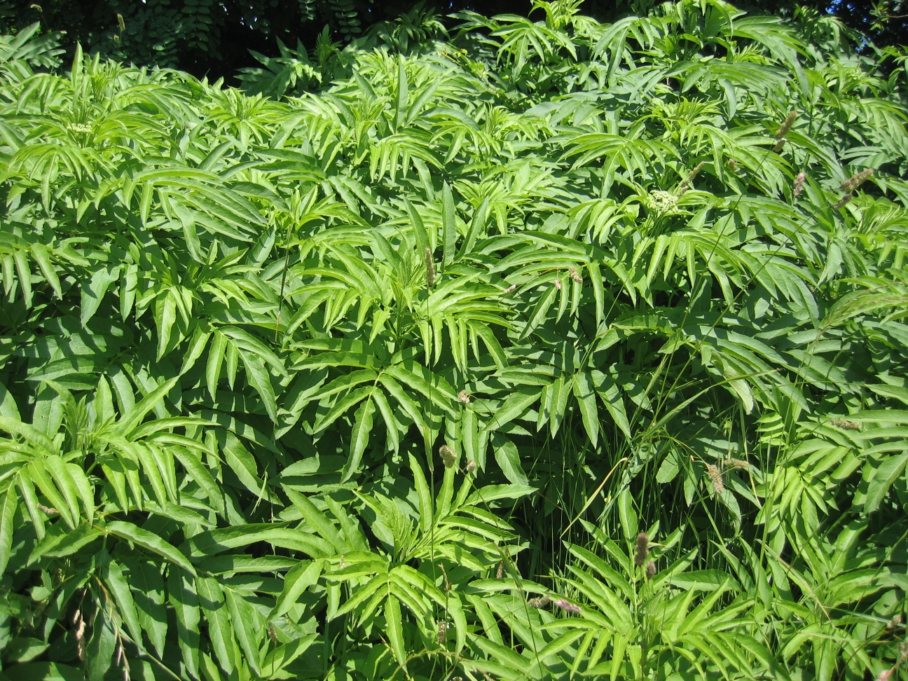 Sambucus ebulus. This photograph was taken on 2008-06-07 at Getxo in the Bizkaia province of the Basque Country (Europe), using a Canon PowerShot S50 camera. The original size was 2592x1944 pixels, it was reduced to the present size (1296x972 pixels) using the IrfanView freeware program.